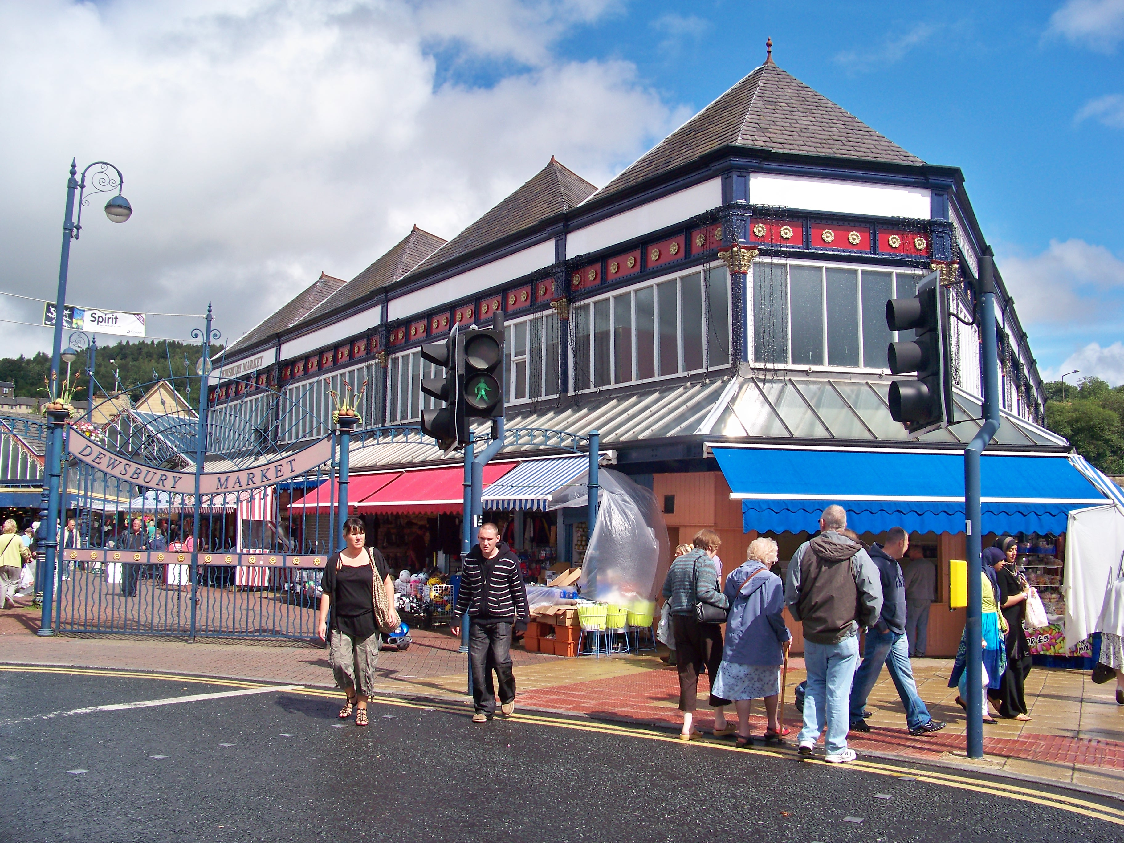 Dewsbury Market, Dewsbury, West Yorkshire, UK. Taken on the afternoon of Saturday 15th August 2009.